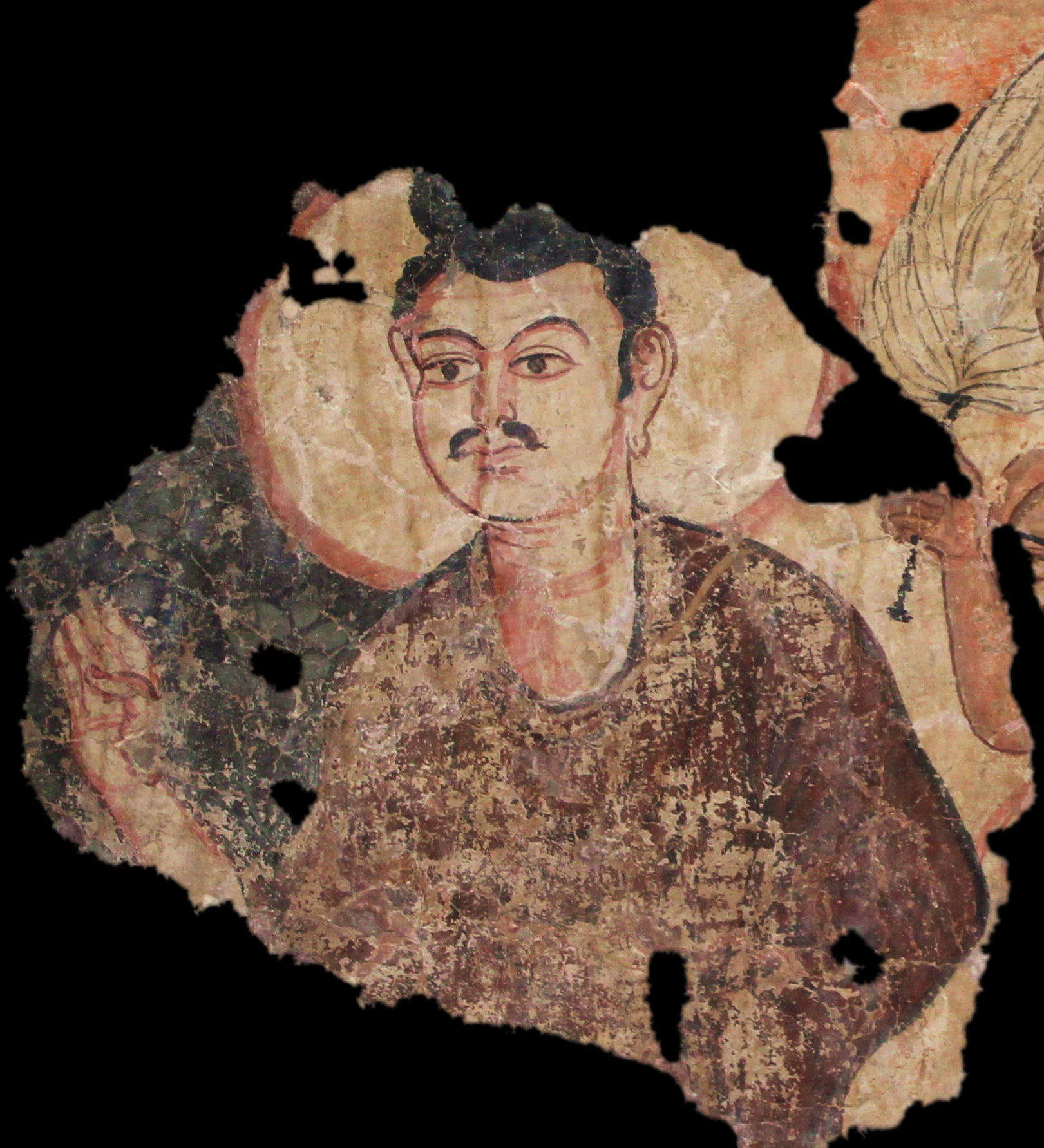 Buddha (left) with Six Disciples, Miran, China, 200 AD - 400 AD